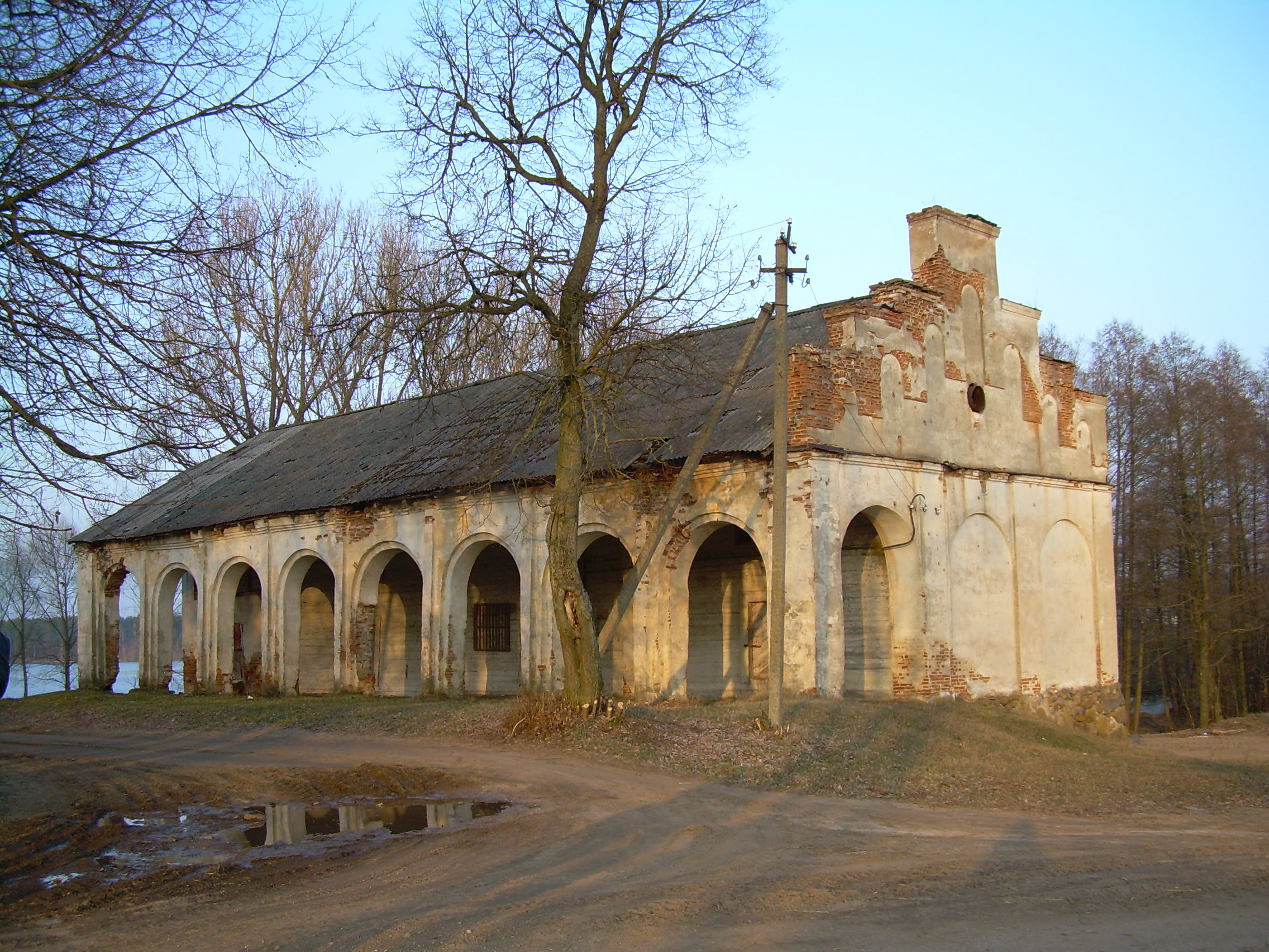 Беларуская (тарашкевіца): Сядзіба. в. Жамыслаўль This is a photo of Belarusian heritage monument. Reference number: 413Г000296 ( WLM)